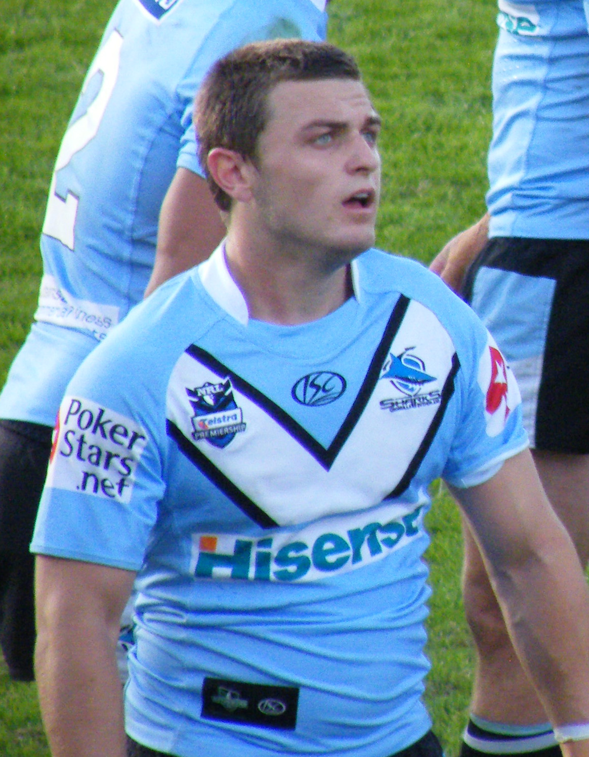 Nathan Gardner of Cronulla Sharks RLFC